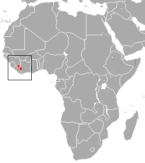 Aellen's Roundleaf Bat (Hipposideros marisae) range, with national borders added